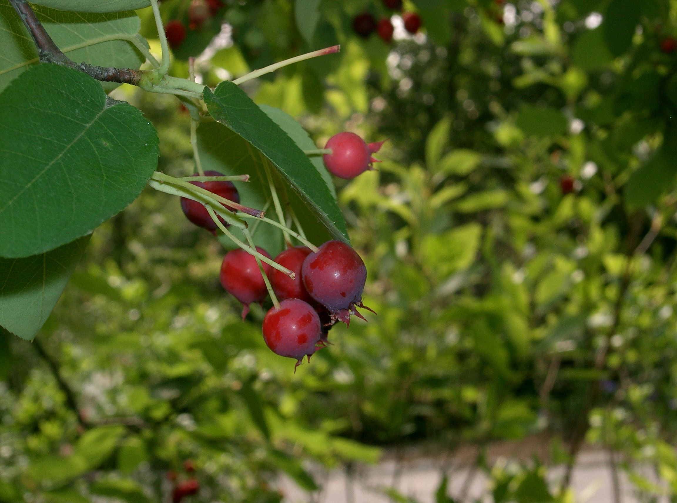 Unknown